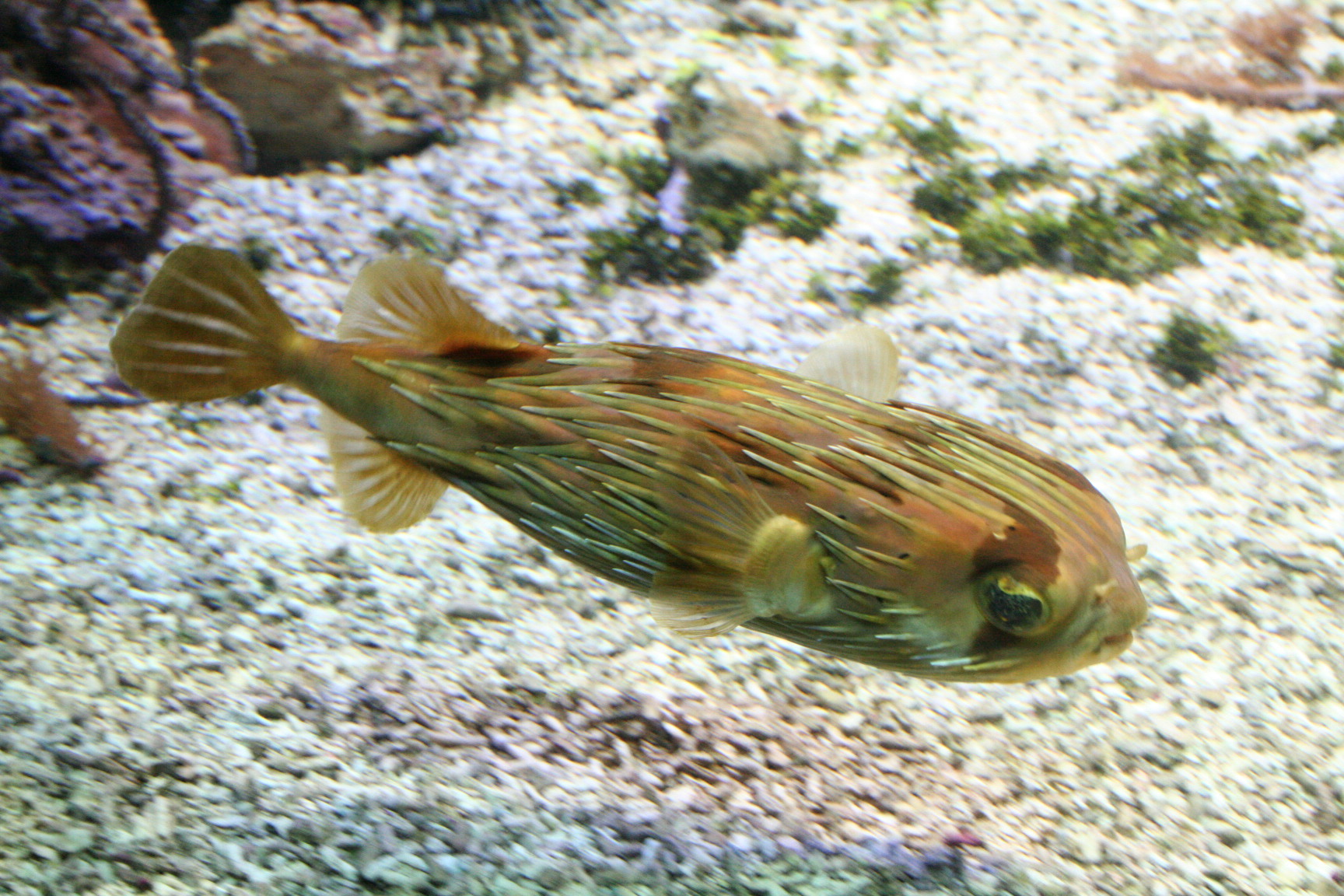 Diodon holocanthus (Porcupine Pufferfish) at Océanopolis, Brest, France